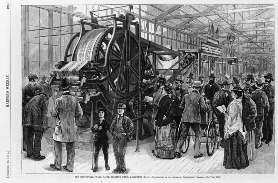 Title: The Centennial -- wall paper printing press, Machinery Hall / photographed by the Centennial Photographic Company. Date Created/Published: 1876 Dec. 23. Medium: 1 print : wood engraving. Illus. in: Harper's Weekly, 1876 Dec. 23, p. 1041.